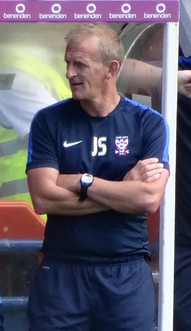 John Schofield on the touchline for York City against Hartlepool United at Bootham Crescent, York on 15 August 2015